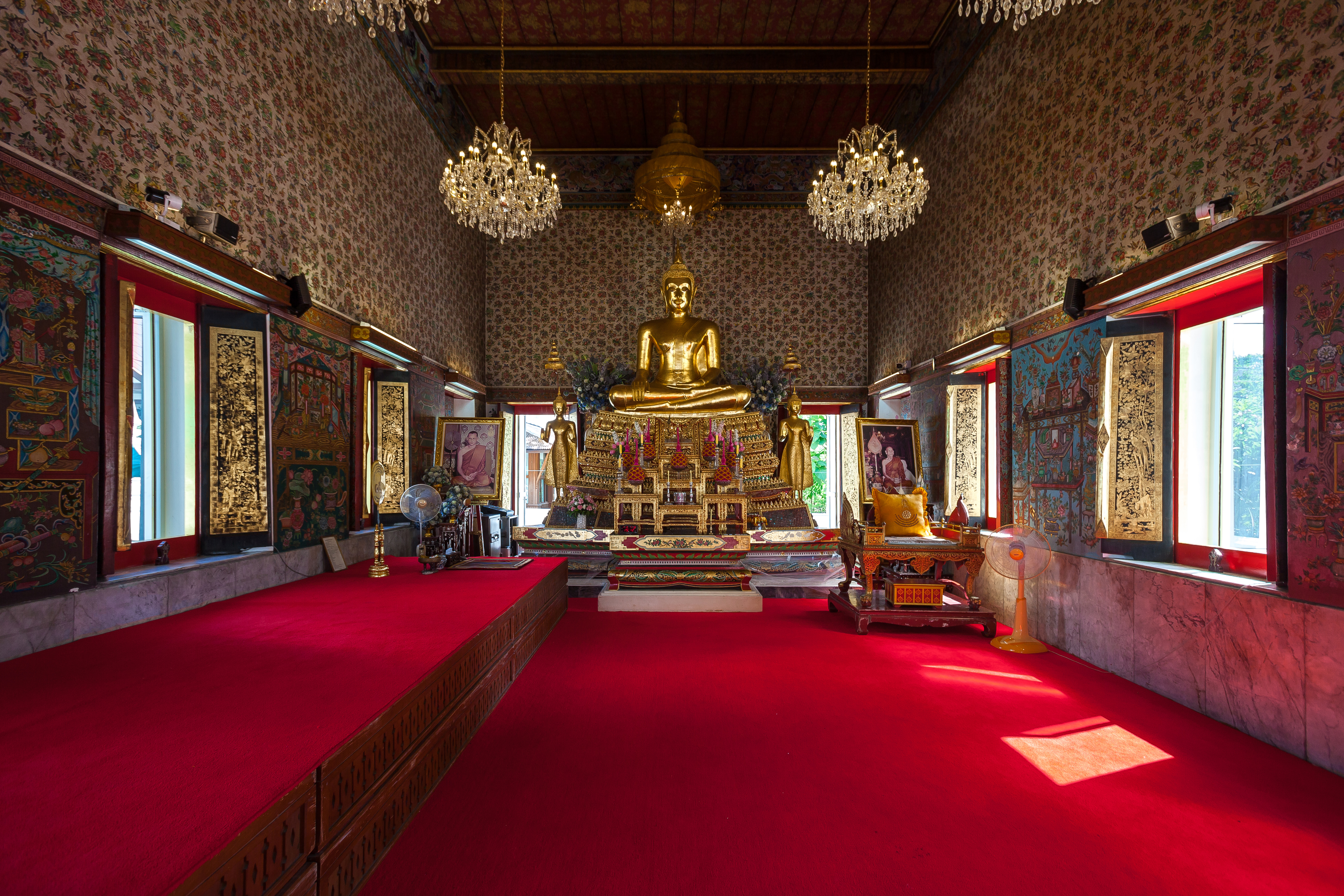 Phra Phuttha Kesorn in Ubosot of Wat Sam Phraya, BKK.